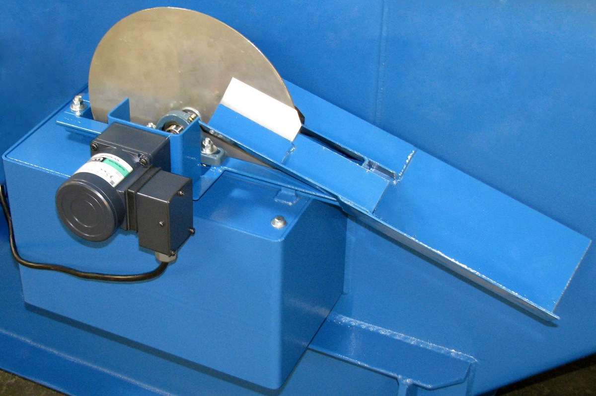 Photograph of non-oleophilic mechanical oil skimmer for a StingRay aqueous parts washer. StingRay Parts Washer Oil Skimmers